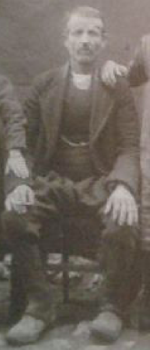 Vasil boglev